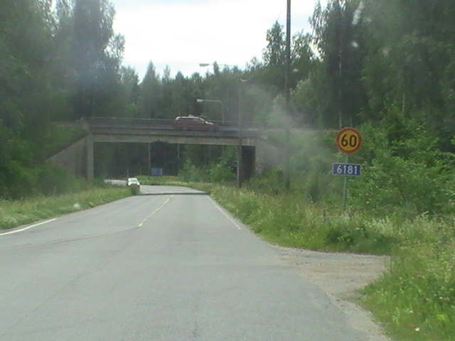 Finnish connecting road 6181 at Leppälahti, Jyväskylä. The road runs from Leppälahti to Toivakka.